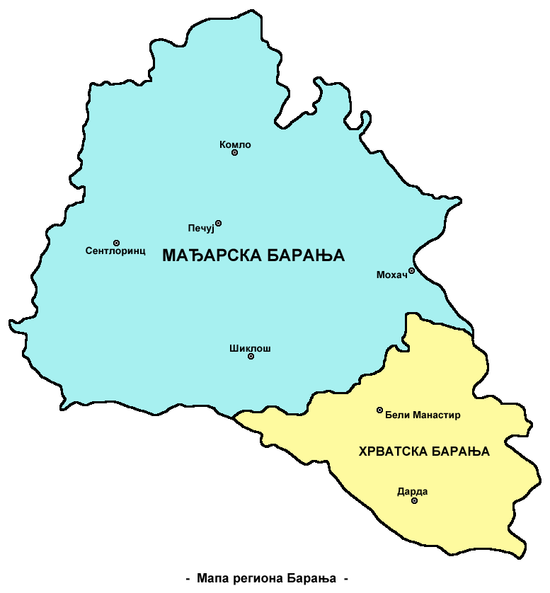 Map of Baranya / Baranja region in Hungary and Croatia.